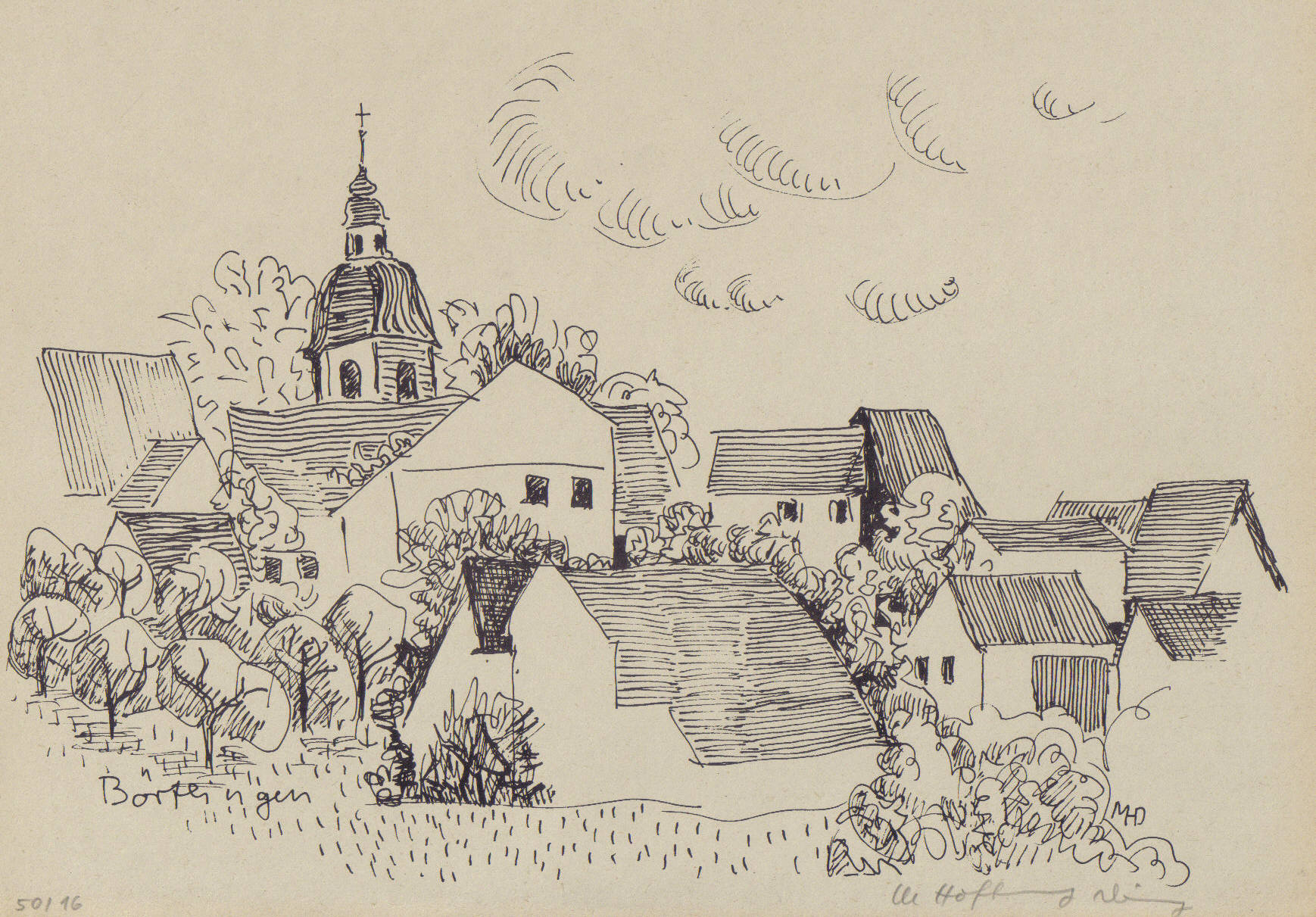 Börtlingen, ink drawing, 30 x 20 cm